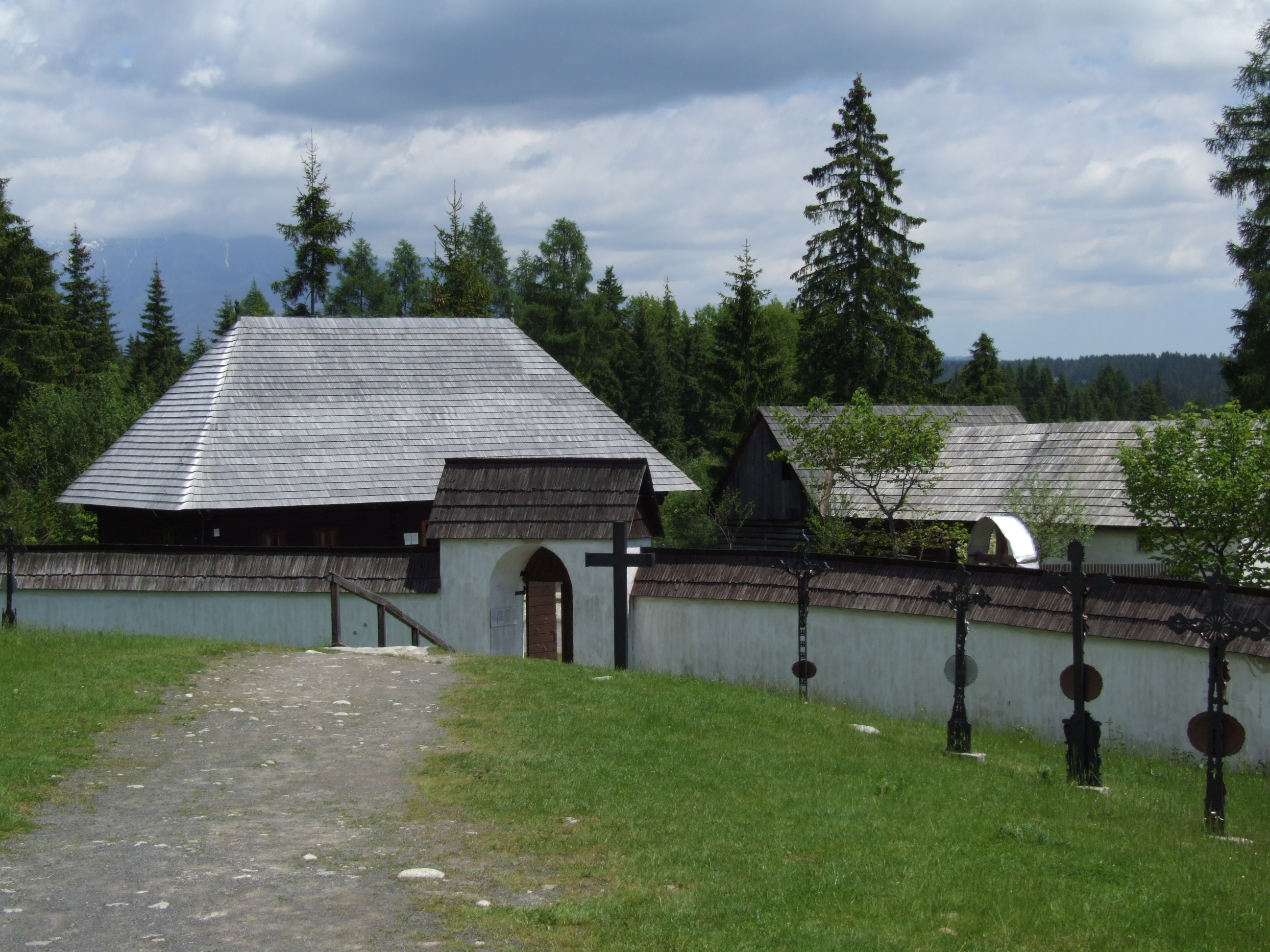 Museum of the Liptov village in Pribylina